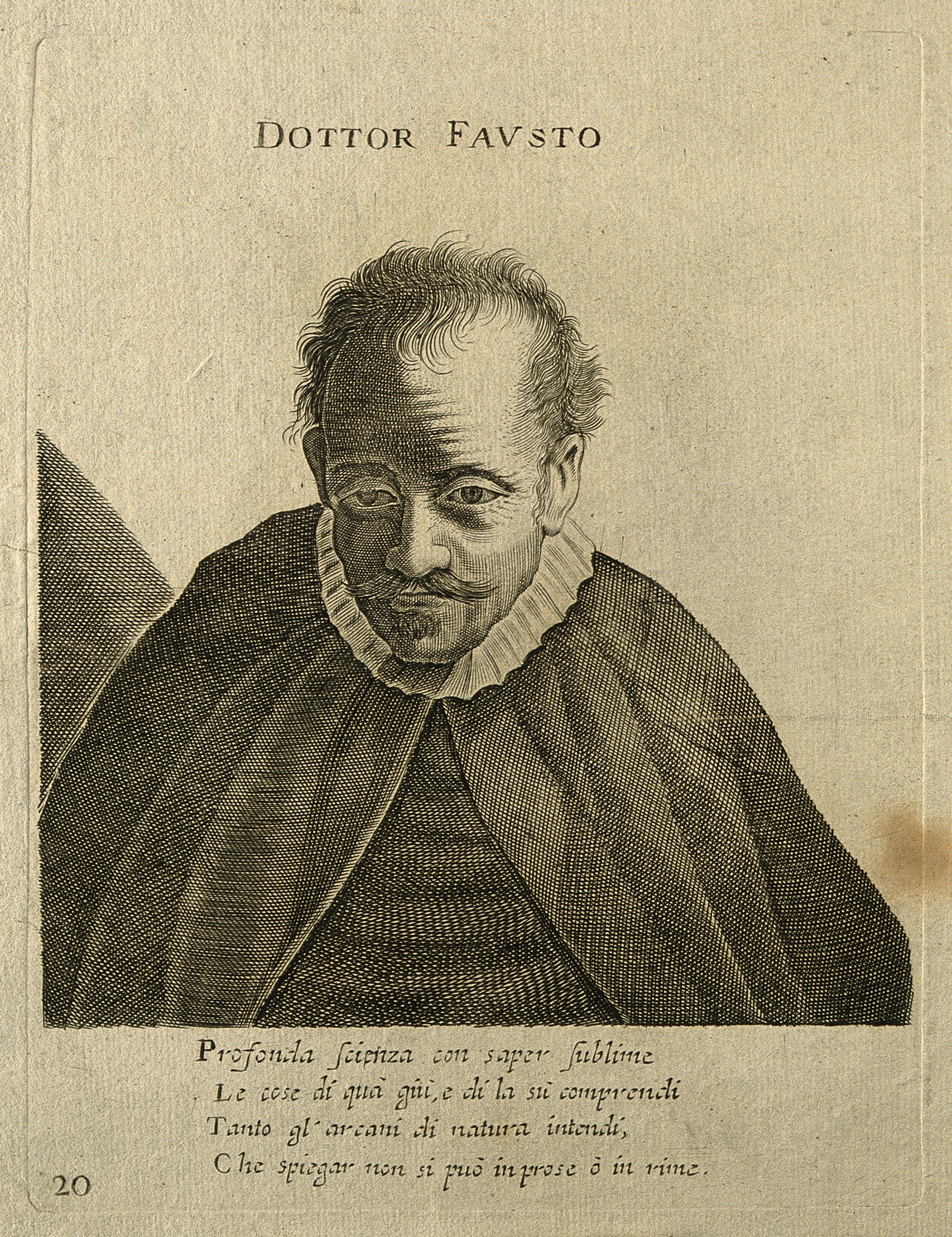 Johannes Faust. Line engraving. Iconographic Collections Keywords: portrait prints; Johann Faust; engravings